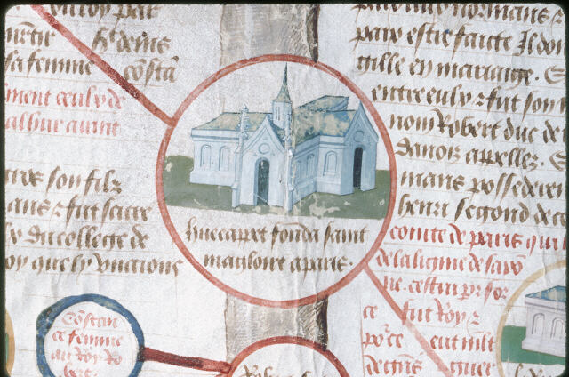 Abbaye de St Magloire Enluminure